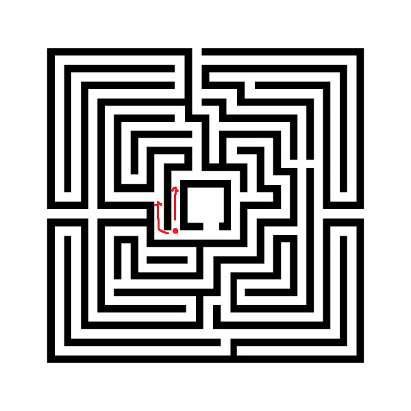 Un contrainte pose un choix, qui se décide de par la séléction